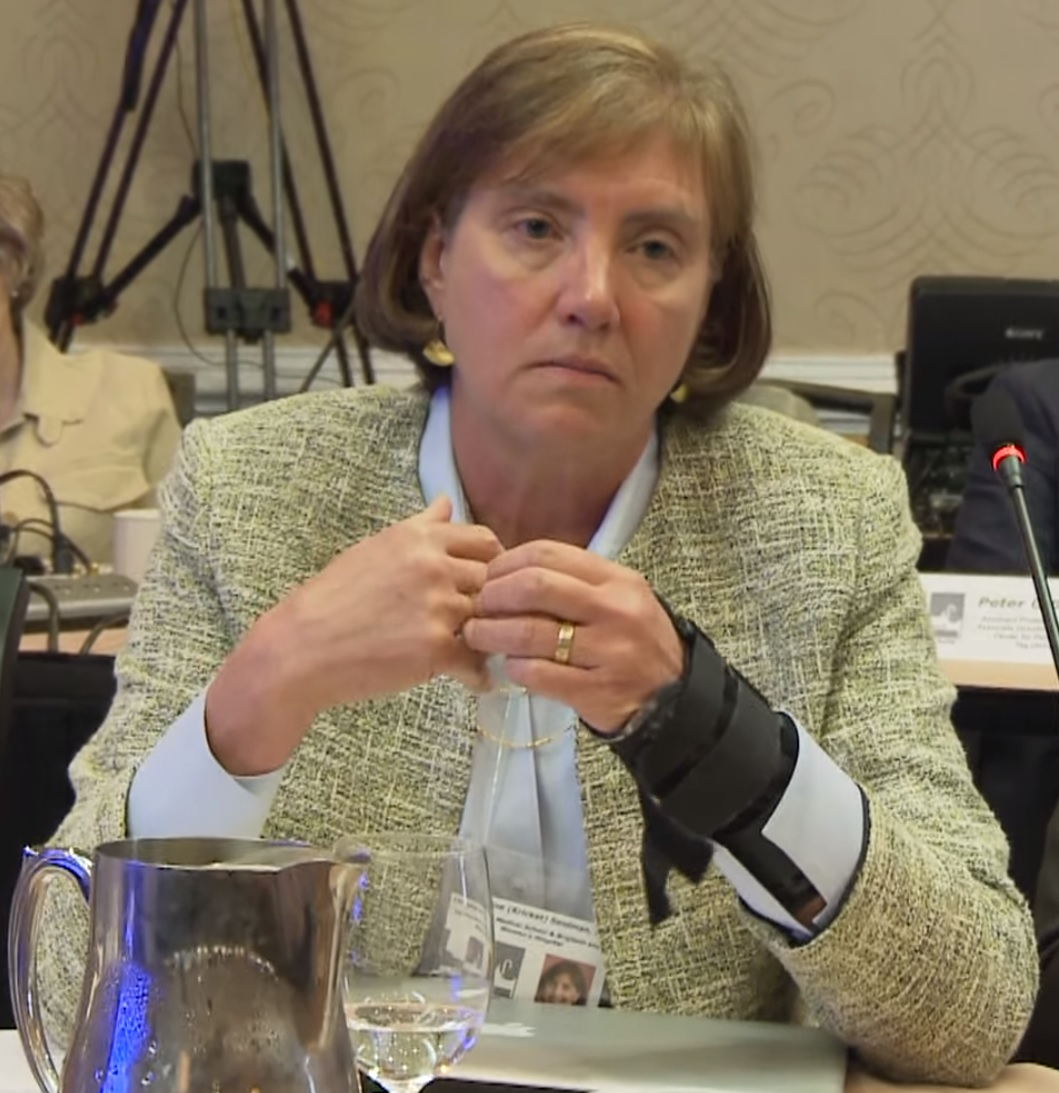 April 19-20, 2016 - Genomic Medicine Meeting IX: Bedside to Bench - Mind the Gaps. More: National Human Genome Research Institute, part of the United States National Institutes of Health